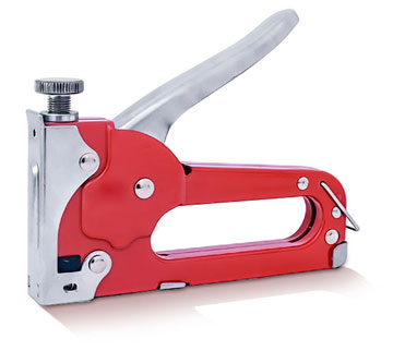 Staple gun tacker is a hand-powered device used for driving heavy duty wire staples into wood and other materials to fasten sheet of paper, construction board, cloth and the like. This is one of the most important tools for visual merchandising nowadays.